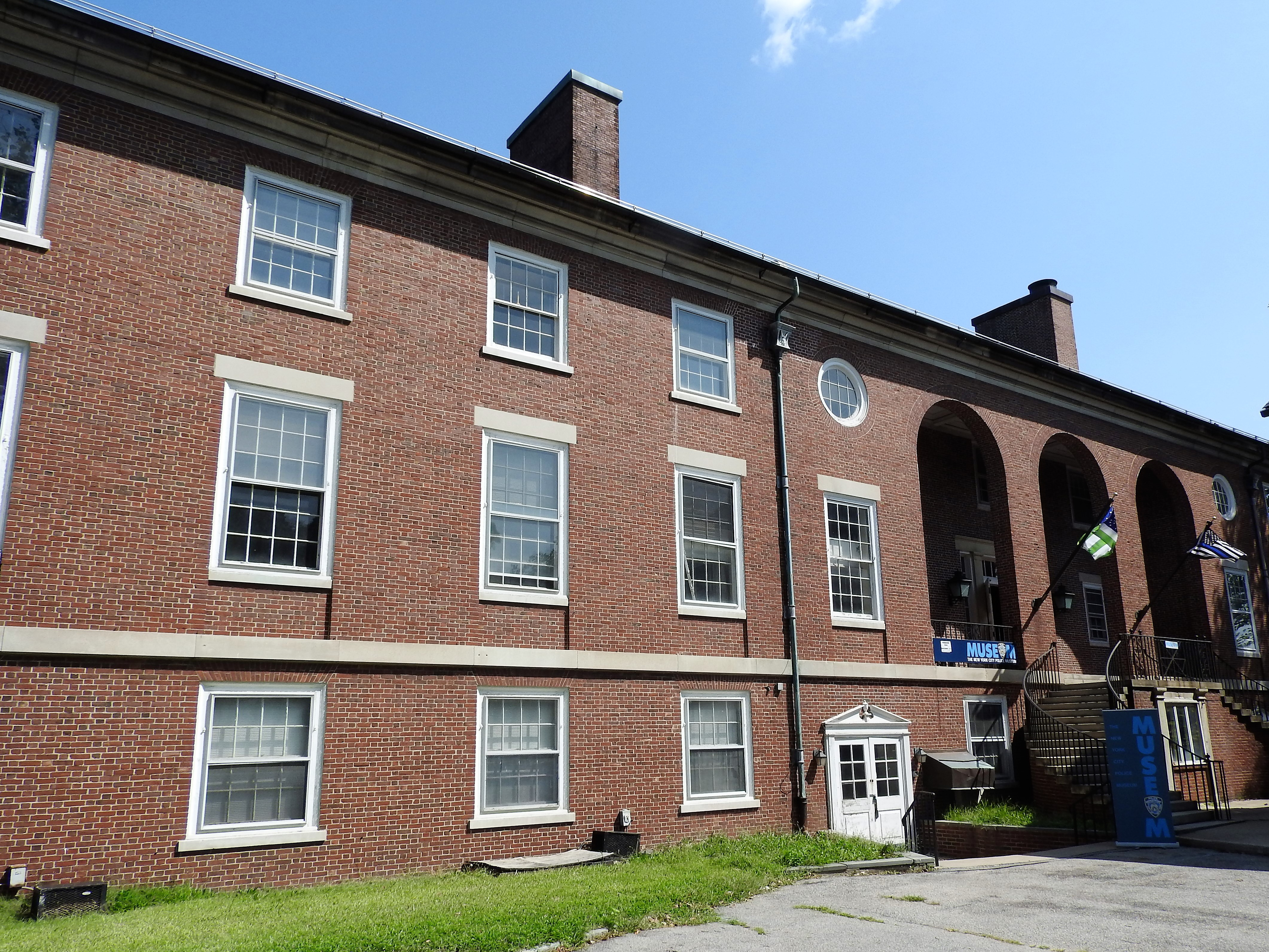 Looking north at temporary museum, closed today.